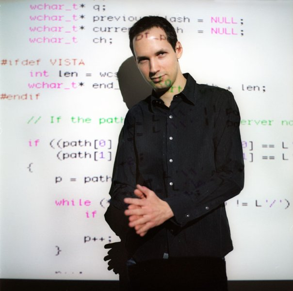 Alexander Sotirov, photo by Anna Goldberg